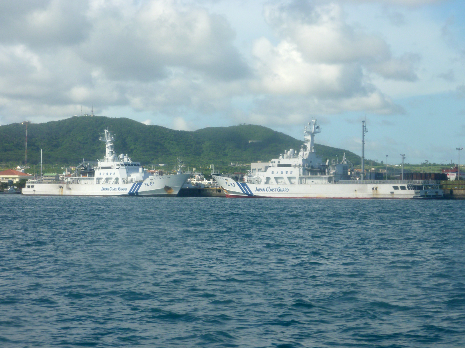 Japan Coast Guard PL61 Hateruma and PL63 Yonakuni at the Port of Ishigaki